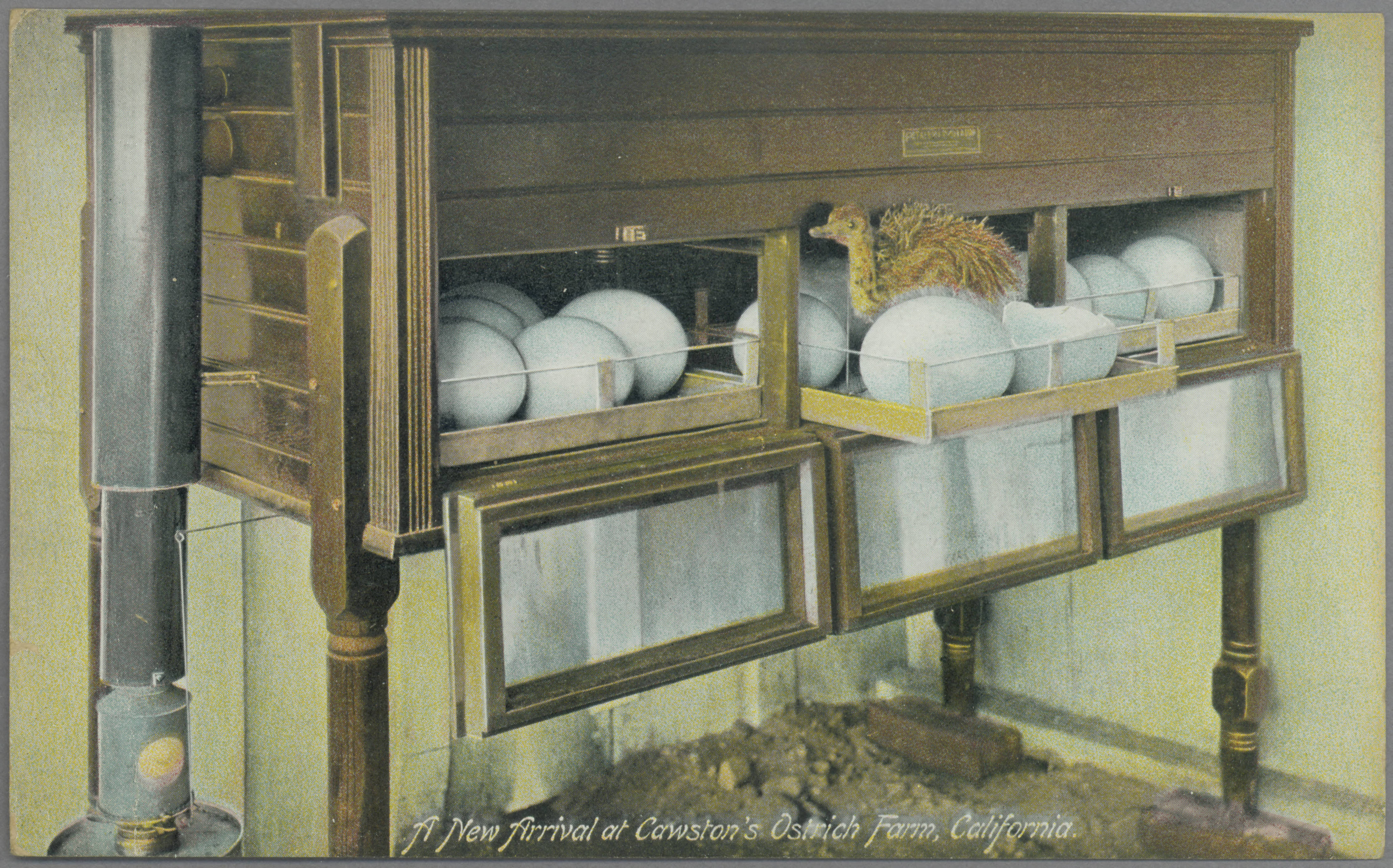 New Arrival at Cawston's Ostrich Farm, California. Postcard of a new arrival at Cawston's Ostrich Farm, in South Pasadena, California. Color photograph of a newly hatched baby ostrich amongst other ostrich eggs in an incubator. "No. 4261", "Made in Germany." -- printed on back. Legacy Record ID: pcard-m162 Filename: pcard-print-pub-pc-70a; pcard-print-pub-pc-70b Access Conditions: Send requests to address or e-mail given. Phone (213) 821-2366; fax (213) 740-2343. Coverage date: 1900/1940 Part of collection: Historic Postcards Type: images Publisher (of the Digital Version): University of Southern California. Libraries Geographic Subject (State): California Identifying Number: file name: pb-print-pub-slac-pc.70; file name: pb-print-pub-slac-pc-b.70 Publisher (of the Original Version): M. Rieder, Publ., Los Angeles, Cal. Format (aacr2): 1 postcard : col. ; 9 x 14 cm. Repository Name: USC Libraries Special Collections Language: English Rights: M. Rieder, Publ., Los Angeles, Cal. Repository Address: Doheny Memorial Library, Los Angeles, CA 90089-0189 Geographic Subject (City or Populated Place): South Pasadena Contributing entity: University of Southern California Date created: 1900/1940 Format (aat): Postcards; photographs Subject (lcsh): ostrich farms Repository Geographic Subject (Country): USA Subject: ostrich eggshell